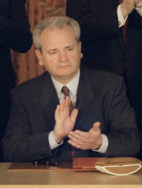 Slobodan Milosevic, just after signing the Dayton Agreement